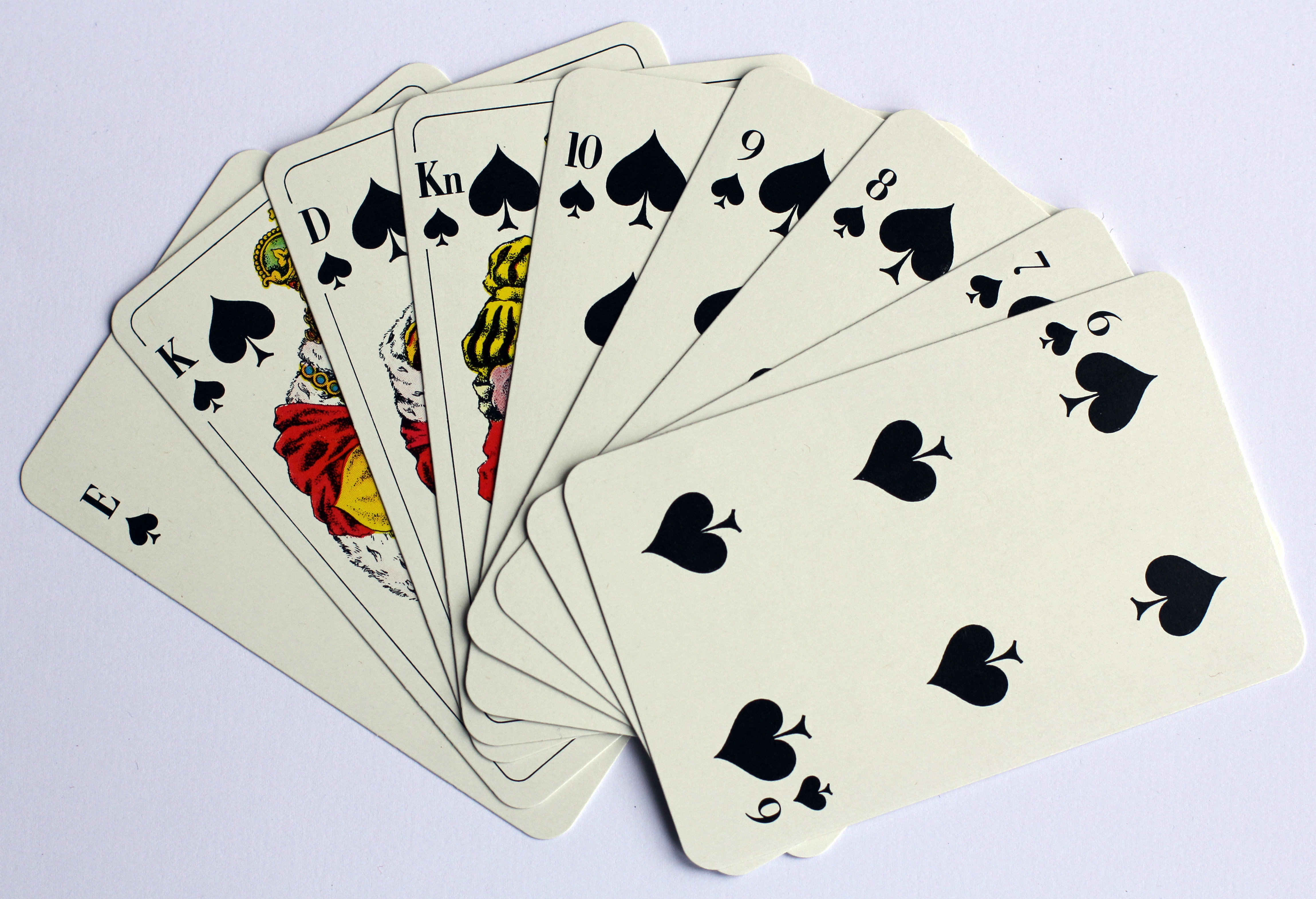 The suit of Spades (from the Ace down to the Six) from a Modern Swedish pattern pack